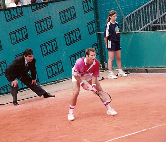 Czech tennisman Karel Novacek, during his match against Richard Krajicek in the 1st round of the 1994 French Open.